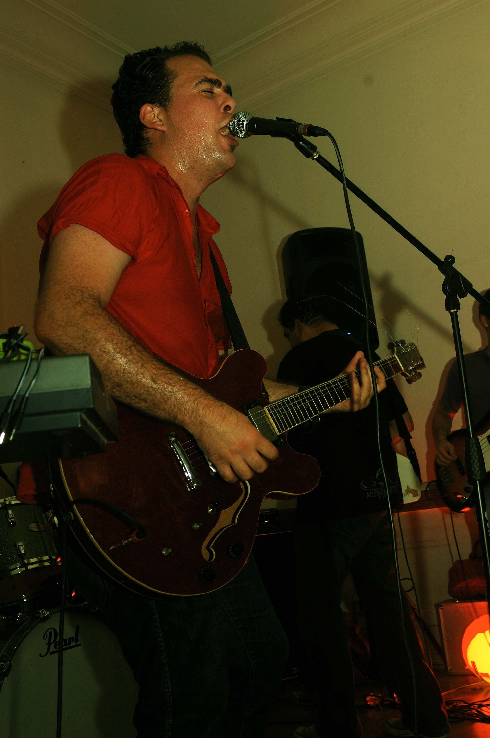 Nick Nicotine by Rui Serrano, 2008.